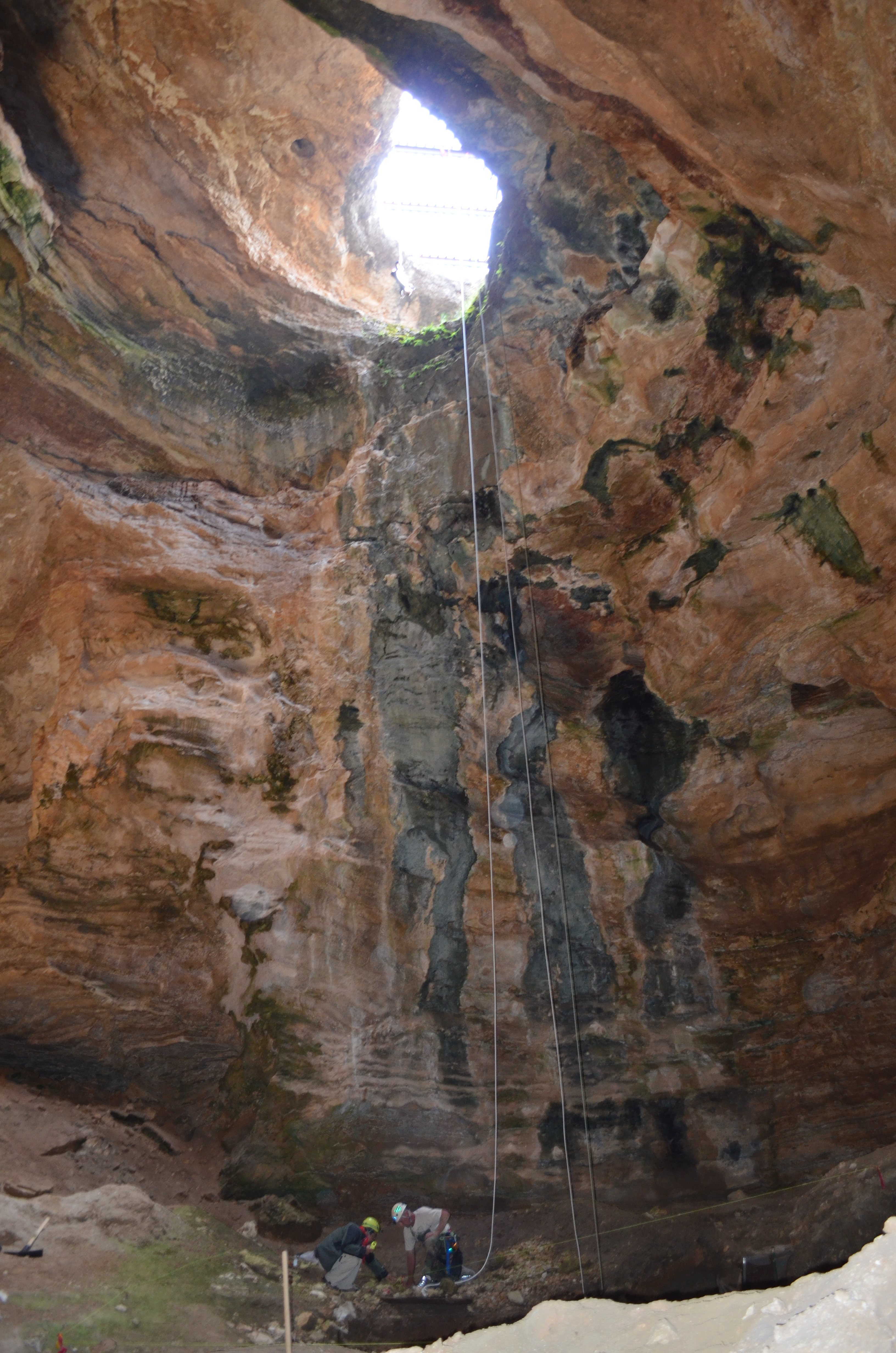 Researchers heading underground to explore and research the Natural Trap Cave in Big Horn County, Wyoming. A rotected by the BLM−Bureau of Land Management in Wyoming. In BLM Wyoming with #mypubliclandsroadtrip! An international team of scientists began its second field season of cave study and excavation at Natural Trap Cave, located in the flanks of Wyoming’s northern Bighorn Mountains northeast of Lovell. NTC is an 85-foot hole in the ground littered with the well-preserved remains of animals that tumbled in over the past 100,000 years. The international group arrived last week and after a couple days of prep work, they descended into the cave. Read about the cave and current research and to watch video interviews with the scientists about their new findings: Researchers explore Natural Trap Cave, Wyoming. Photo by Brent Breithaupt